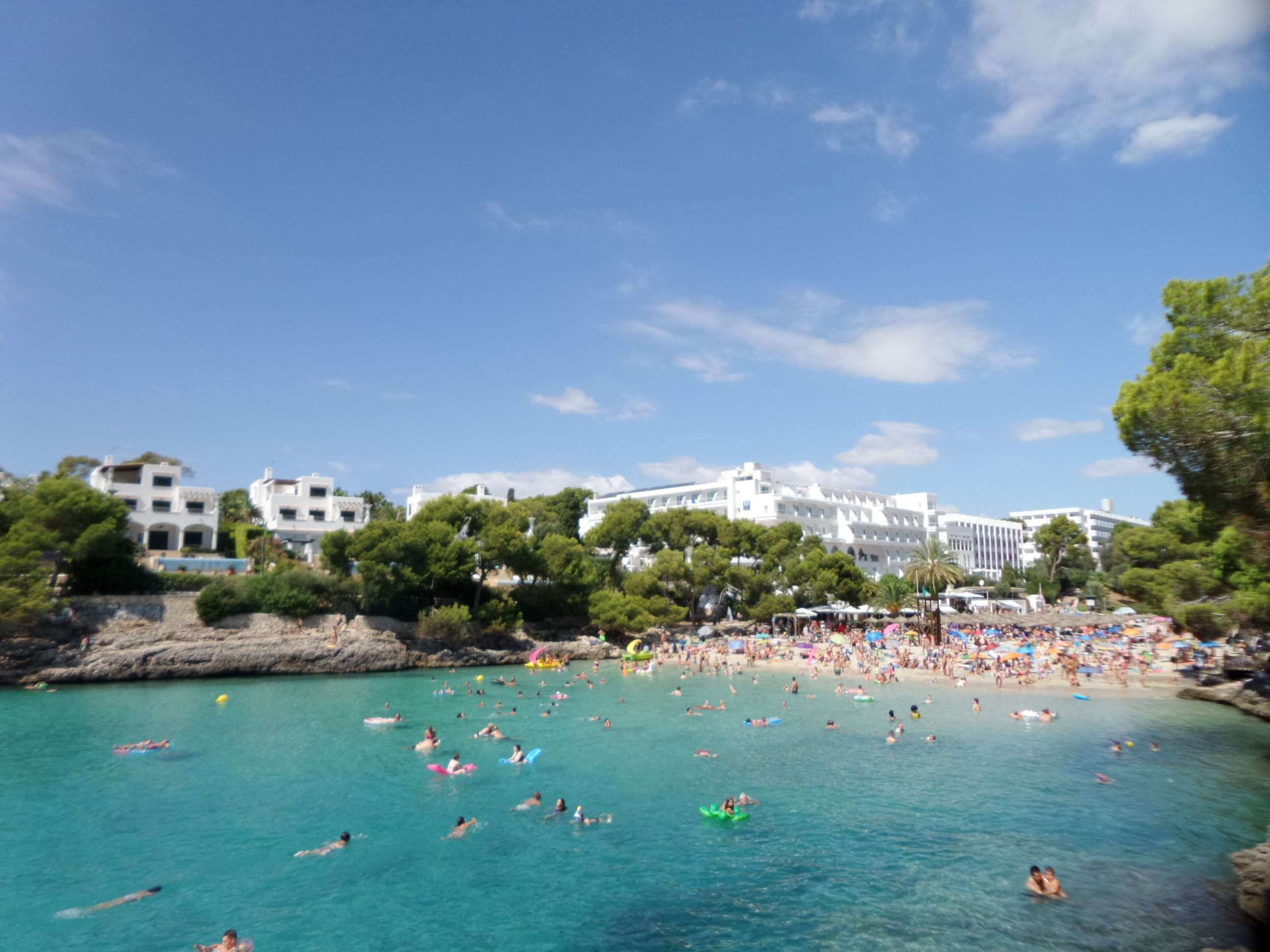 Cala Gran (Bay, Beach)